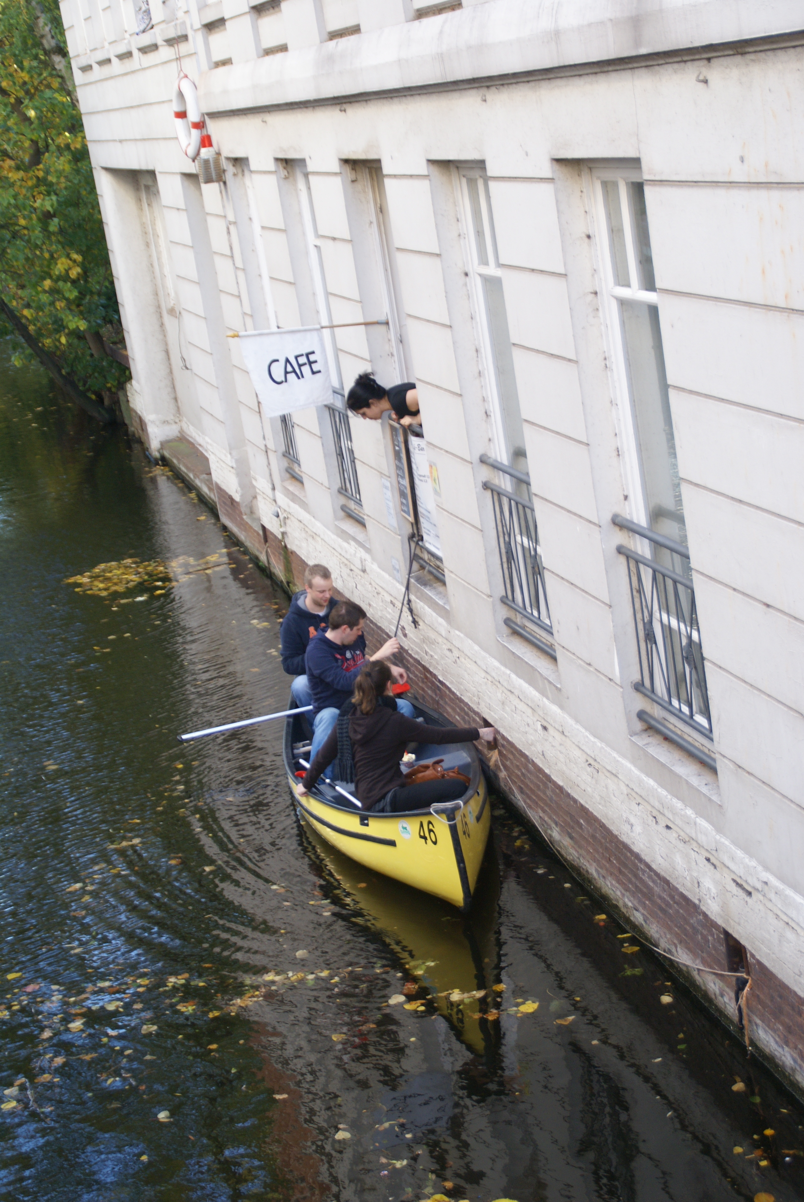 Hamburg (Winterhude), Germany: Pit stop at the Mühlenkampkanal